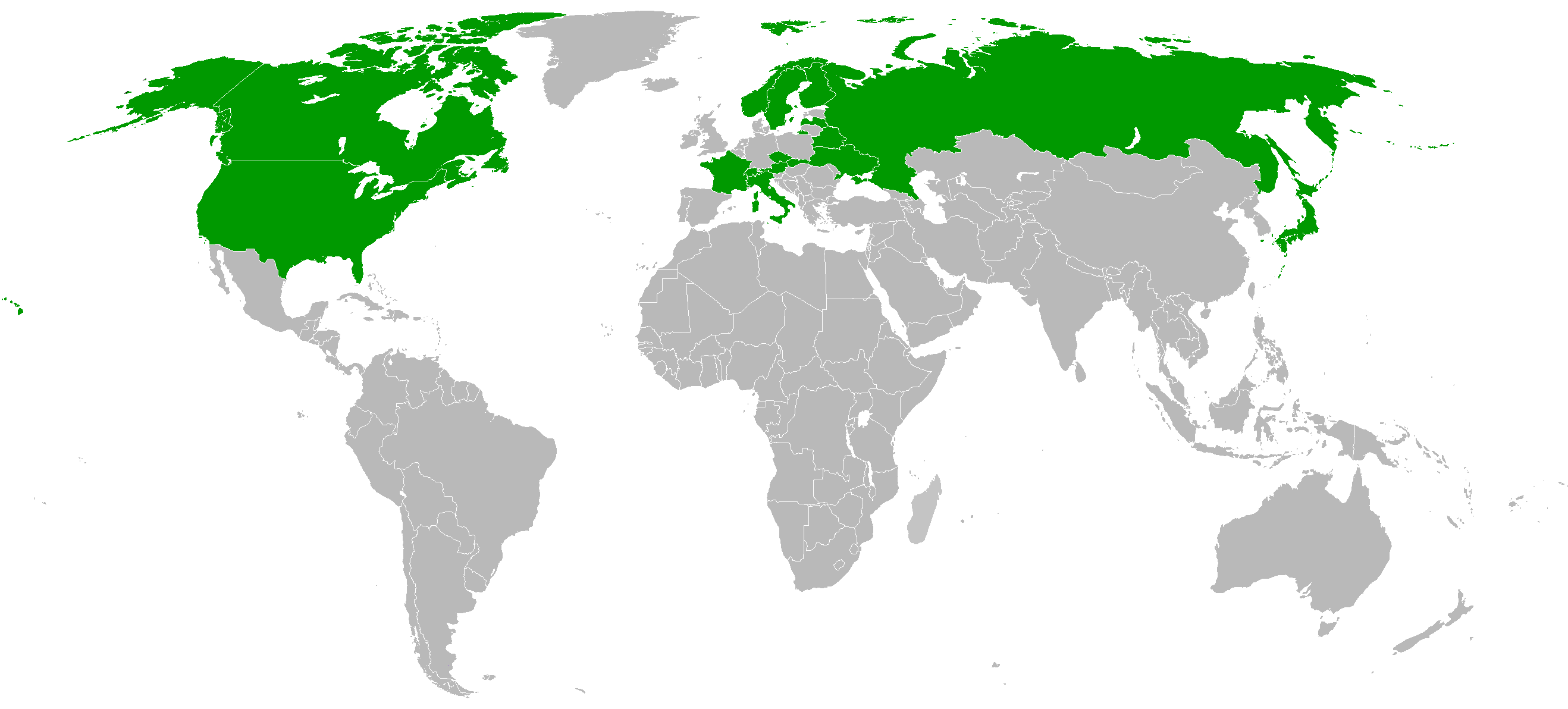 Countries participating in the 2000 IIHF World Championship.